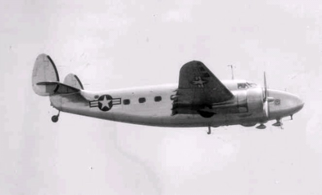 A U.S. Coast Guard Lockheed R5O-4 Lodestar in flight. The USCG used the R5O-4 from 1942 to 1953.